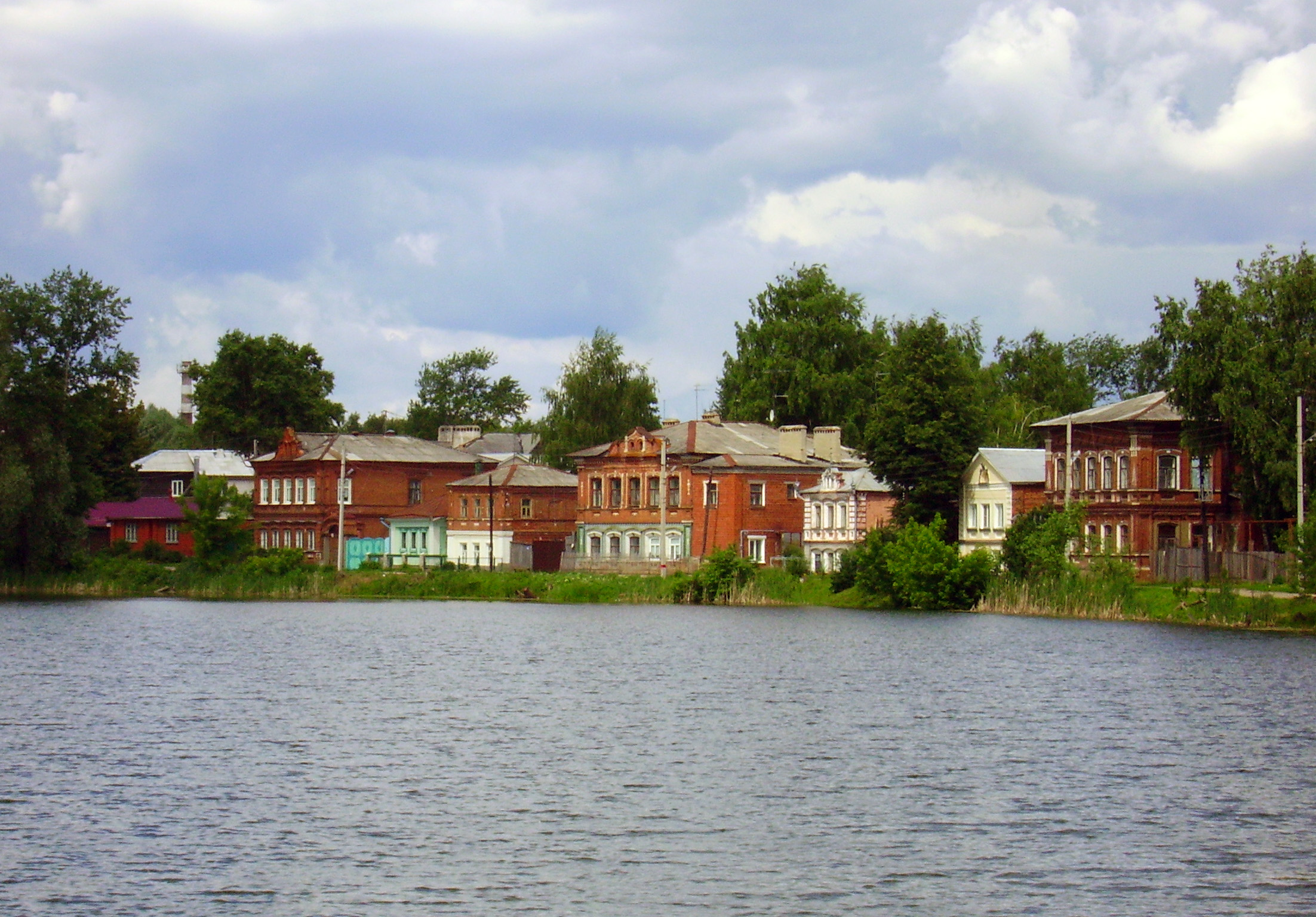 19th century houses on Kabatsky Pond, Bogorodsk, Russia.